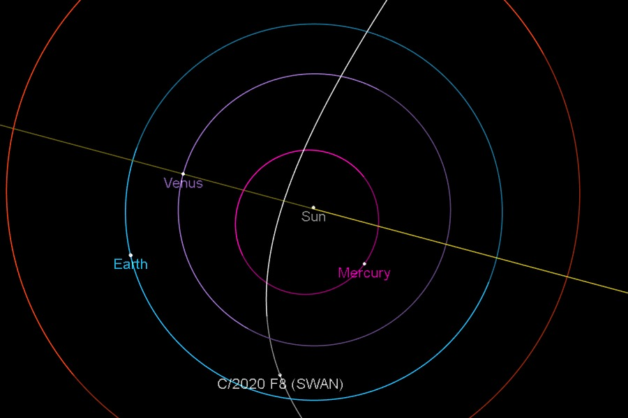 The Sun is the yellow dot in the center, the comet is the white dot at the bottom of the image.